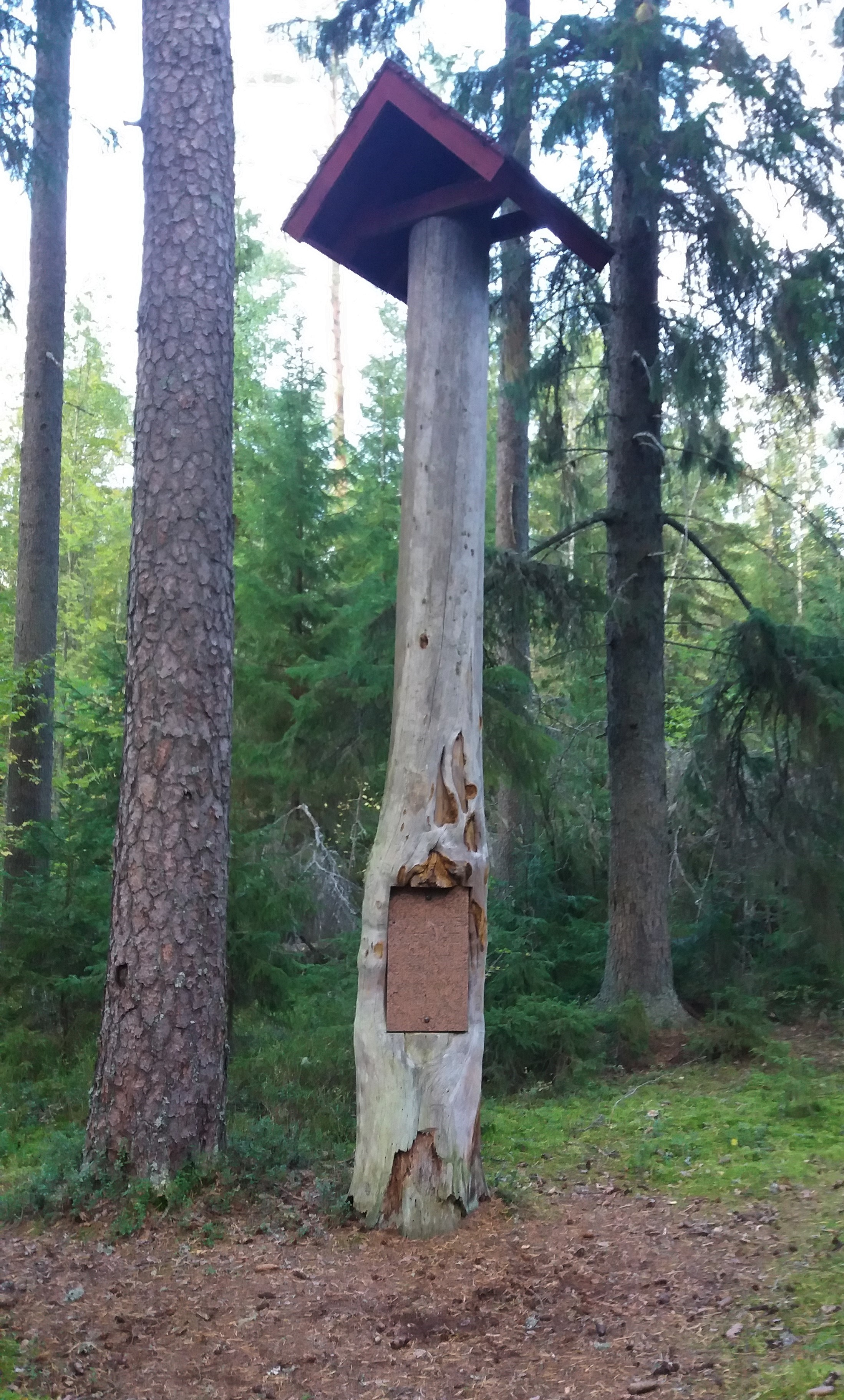 Kuninkaanmänty pine in Köyliö, Finland. The King Gustav III of Sweden had his lunch under the tree in 24 June 1775.